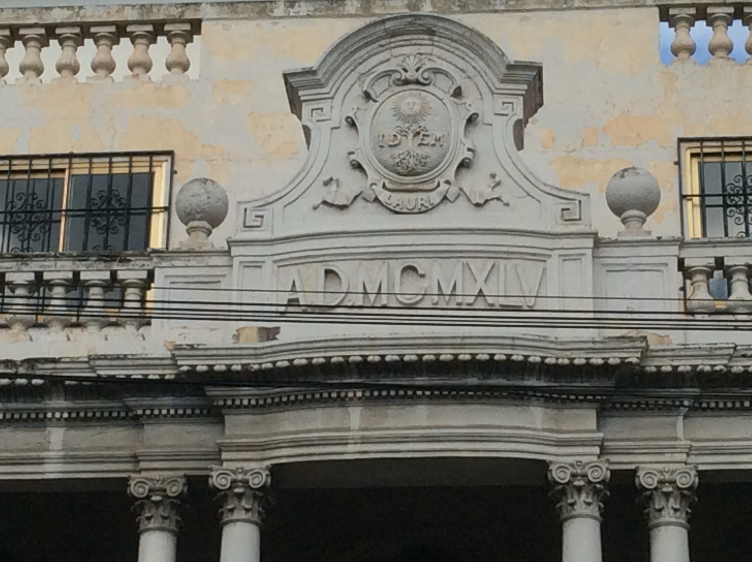 Villa Lauri detail